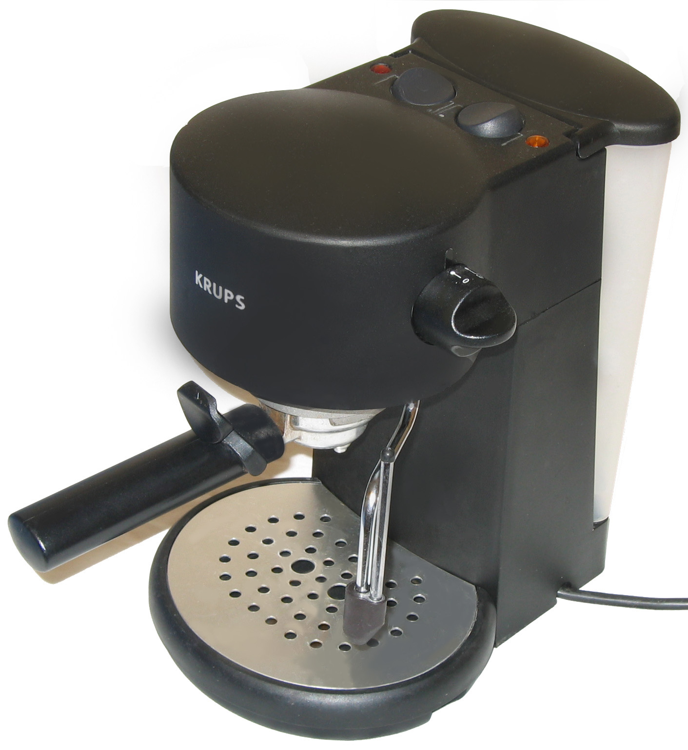 This is a Krups "Vivo F880" espresso maker. It's cleverly designed from a usability perspective, but it broke/wore out after about a year, just like most of my espresso machines do. This photo is edited to show a white background, since I didn't have a more natural background available to put it on. Some edits were performed by Keysignal